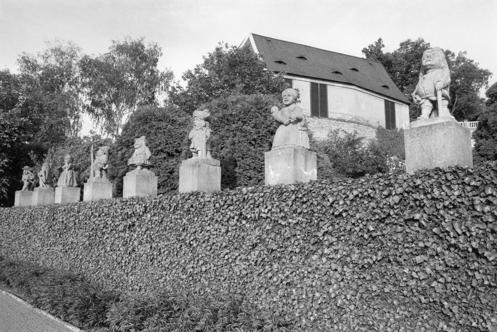 Castle Nové Město nad Metují in Czech Republic, inside the garden, sculptures by Matthias Bernhard Braun picture taken by me in spring 2006 (original black+white)